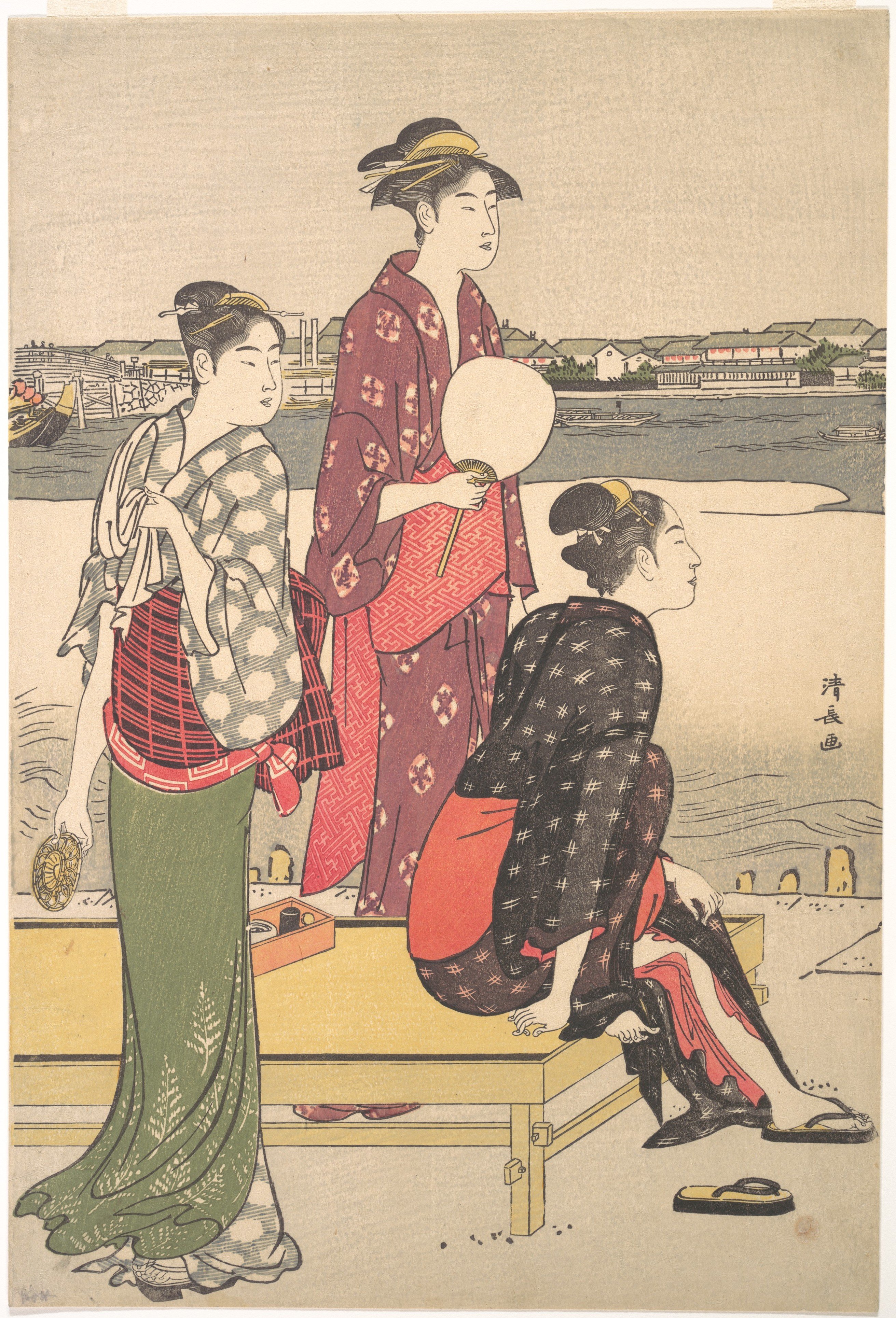 Ukiyo-e full-colour print of three beauties by Torii Kiyonaga. Right half of a diptych